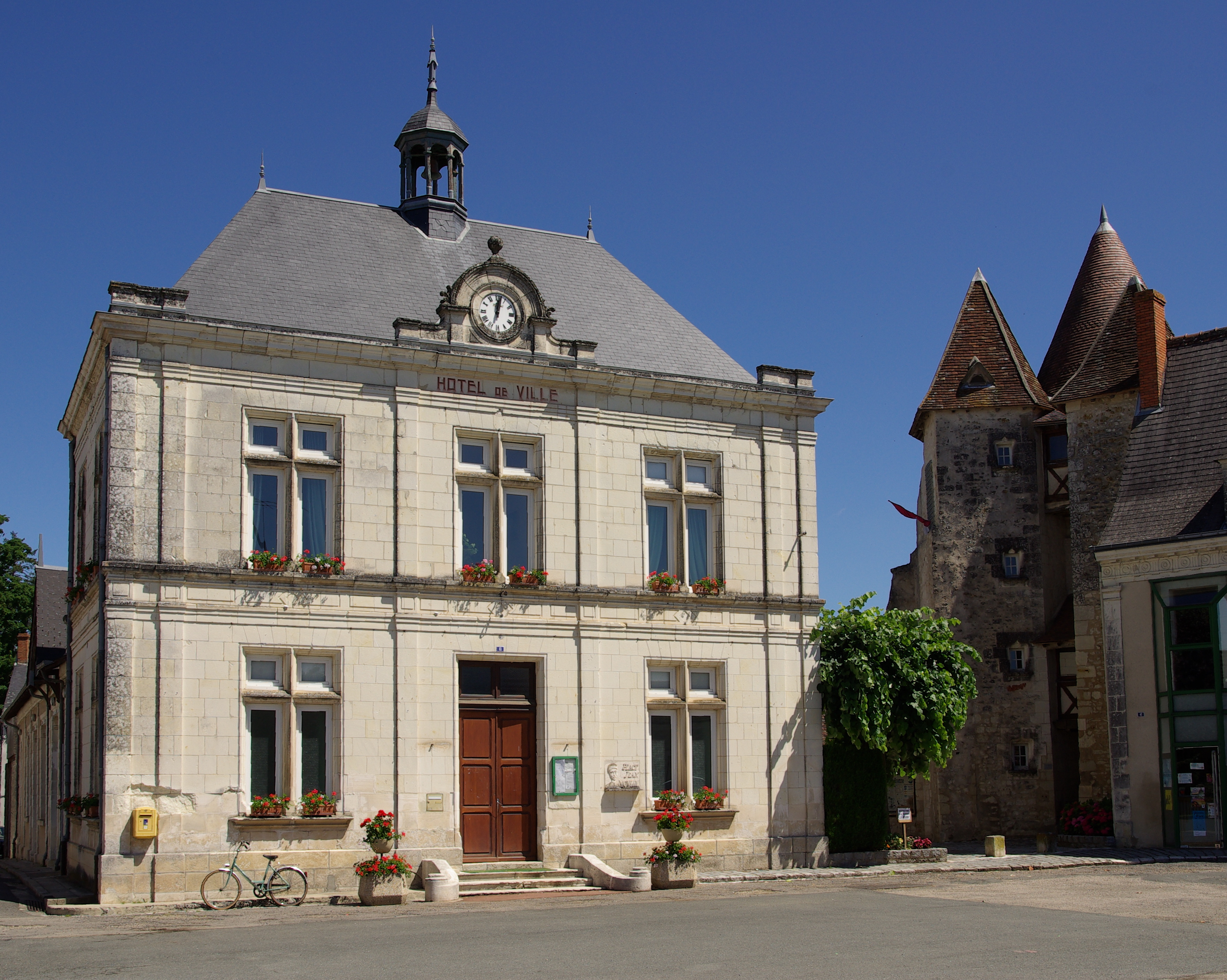 Tonw hall of Mézières-en-Brenne